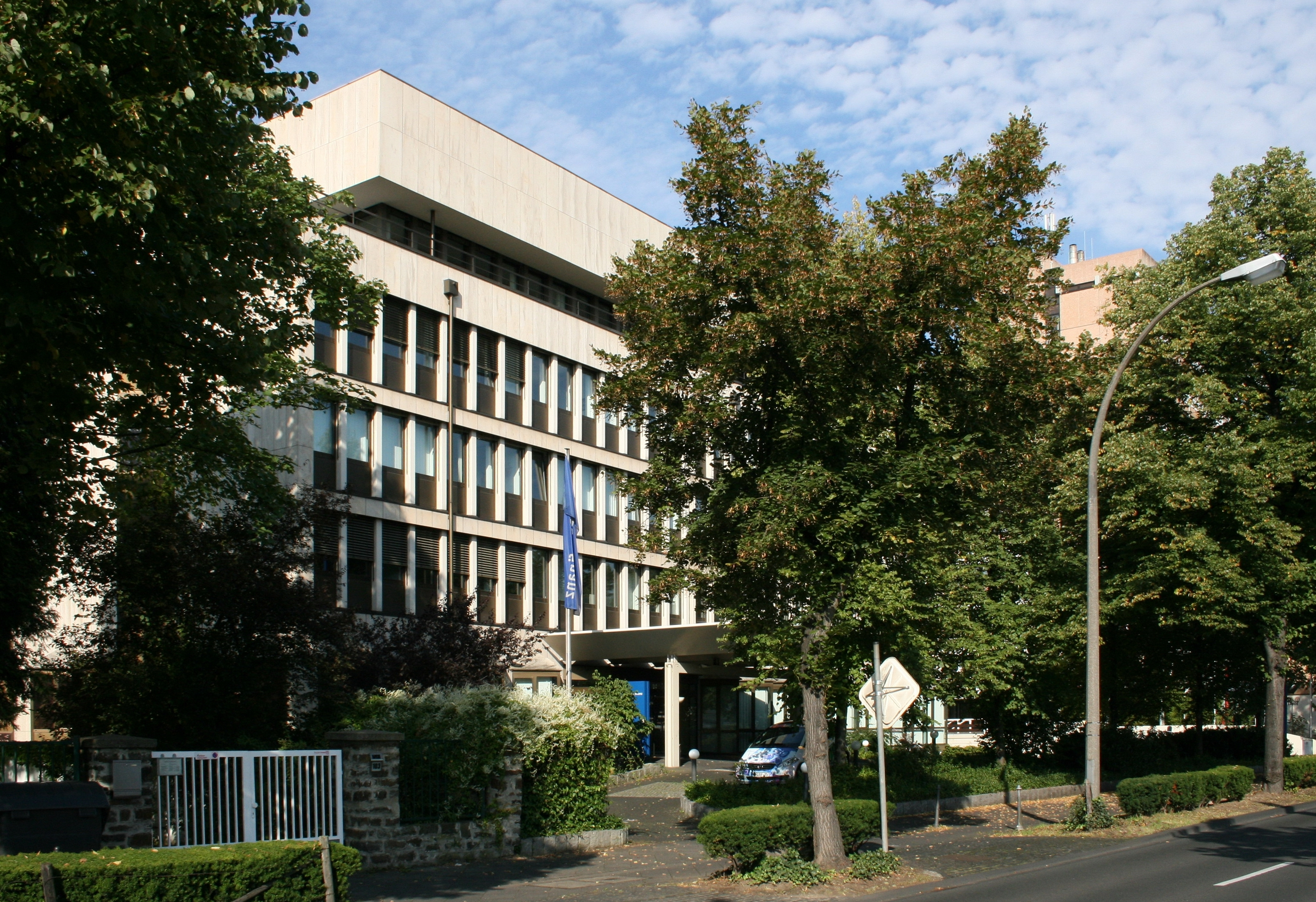 former Headquarter Bonnfinanz (Zurich Group) in Bonn (former embassy of Australia), Germany (Godesberger Allee 105-107)